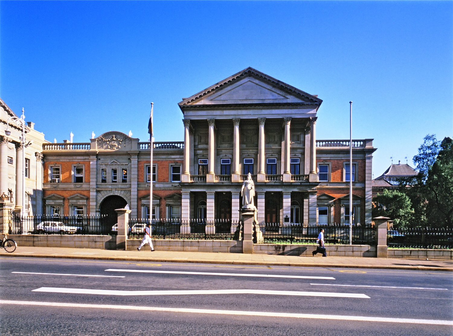 This media shows a South African Protected Site with SAHRA file reference 9/2/436/0042.